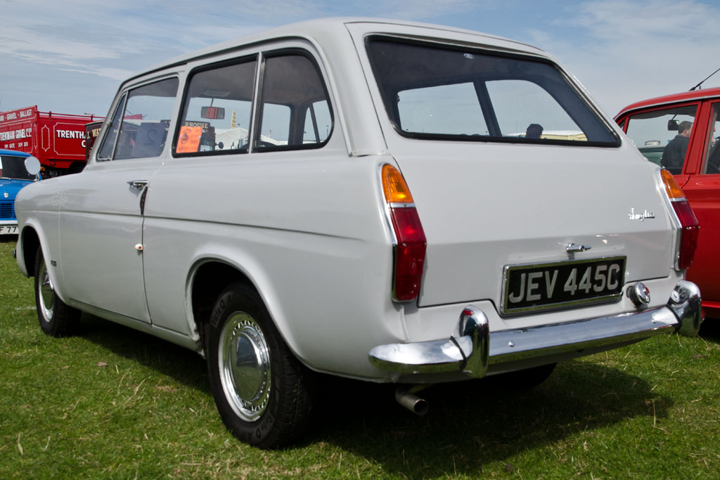 Llandudno Transport Festival 04/05/2013